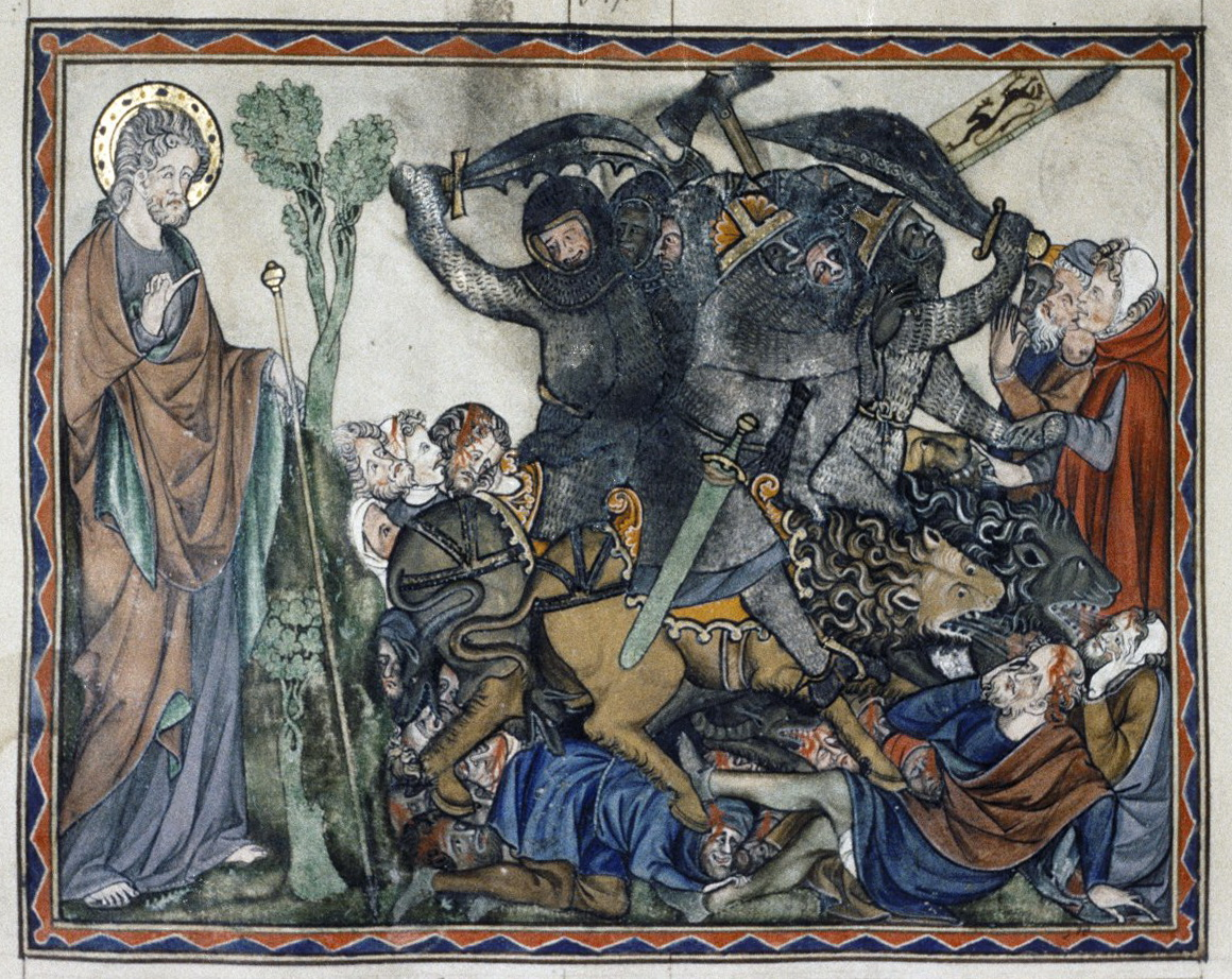 Douce Apocalypse - Bodleian Ms180